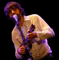 Thomas Fersen in concert